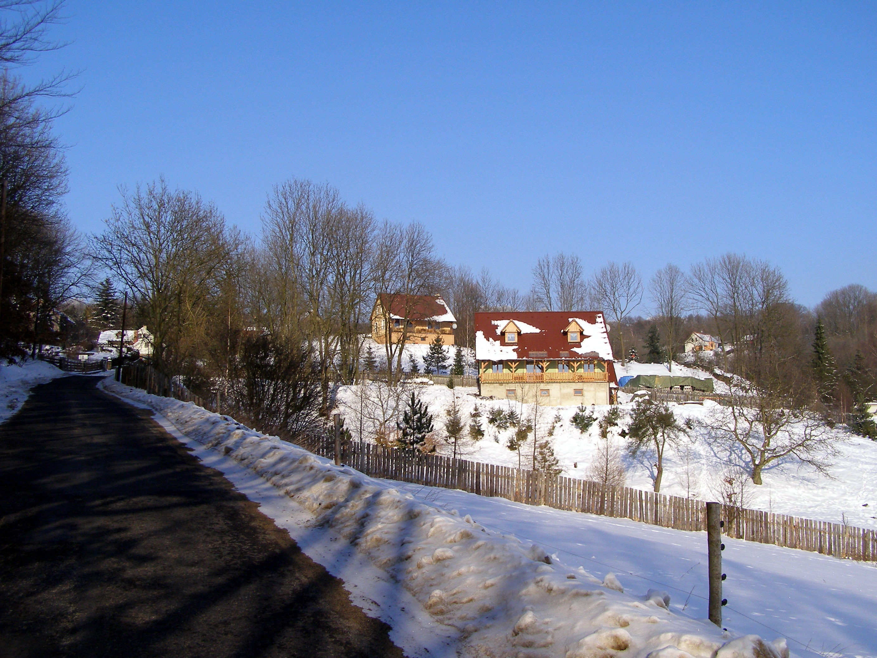 Village of Lbin (Litoměřice District, Czech Republic) as seen from the south